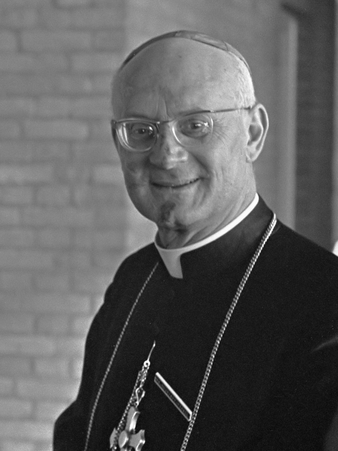 Bishop Gatone Mojaisky Perrelli on 13 July 1967 wearing a pectoral cross